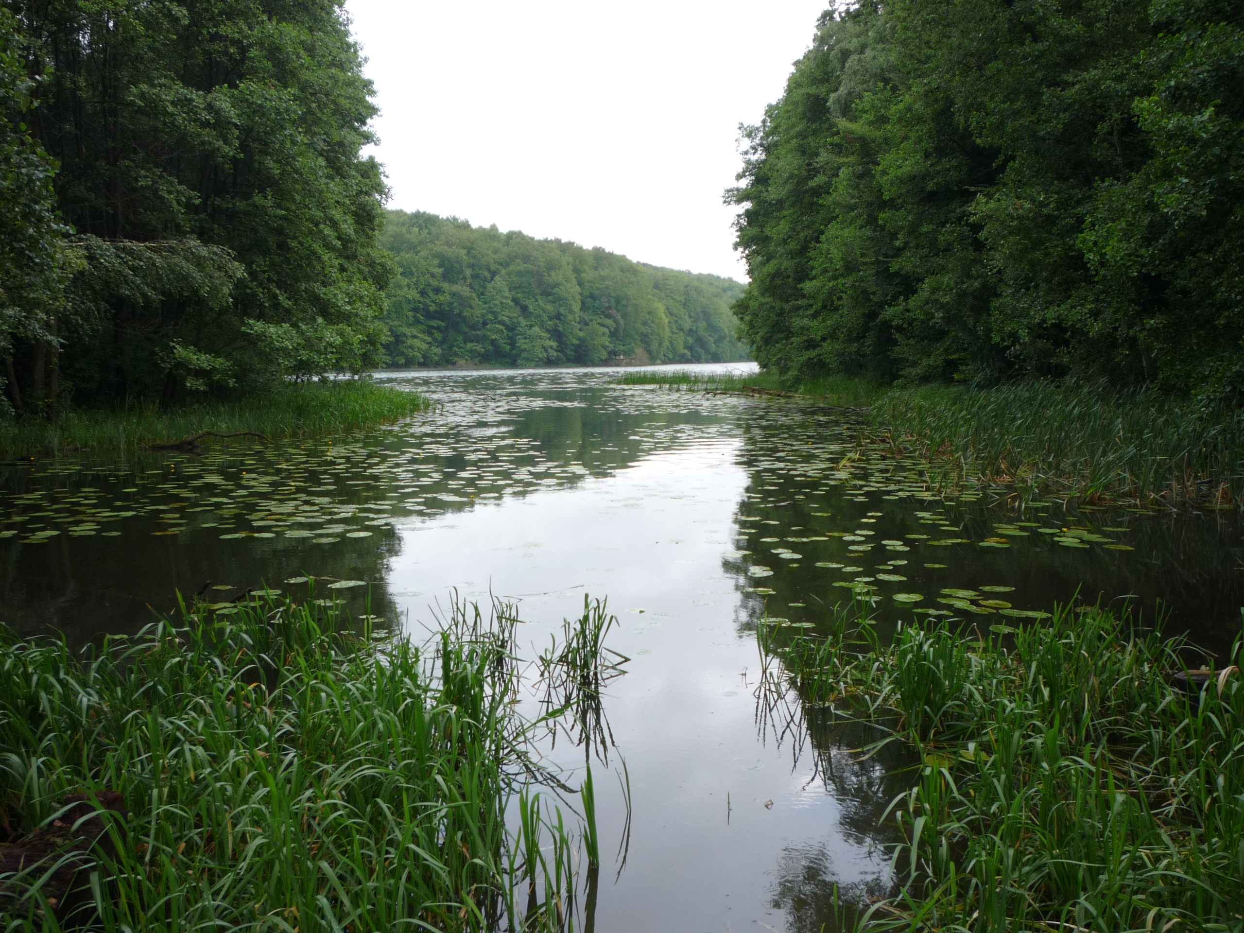 Mołtawa Wielka lake, Pomeranian Voivodeship, Poland.